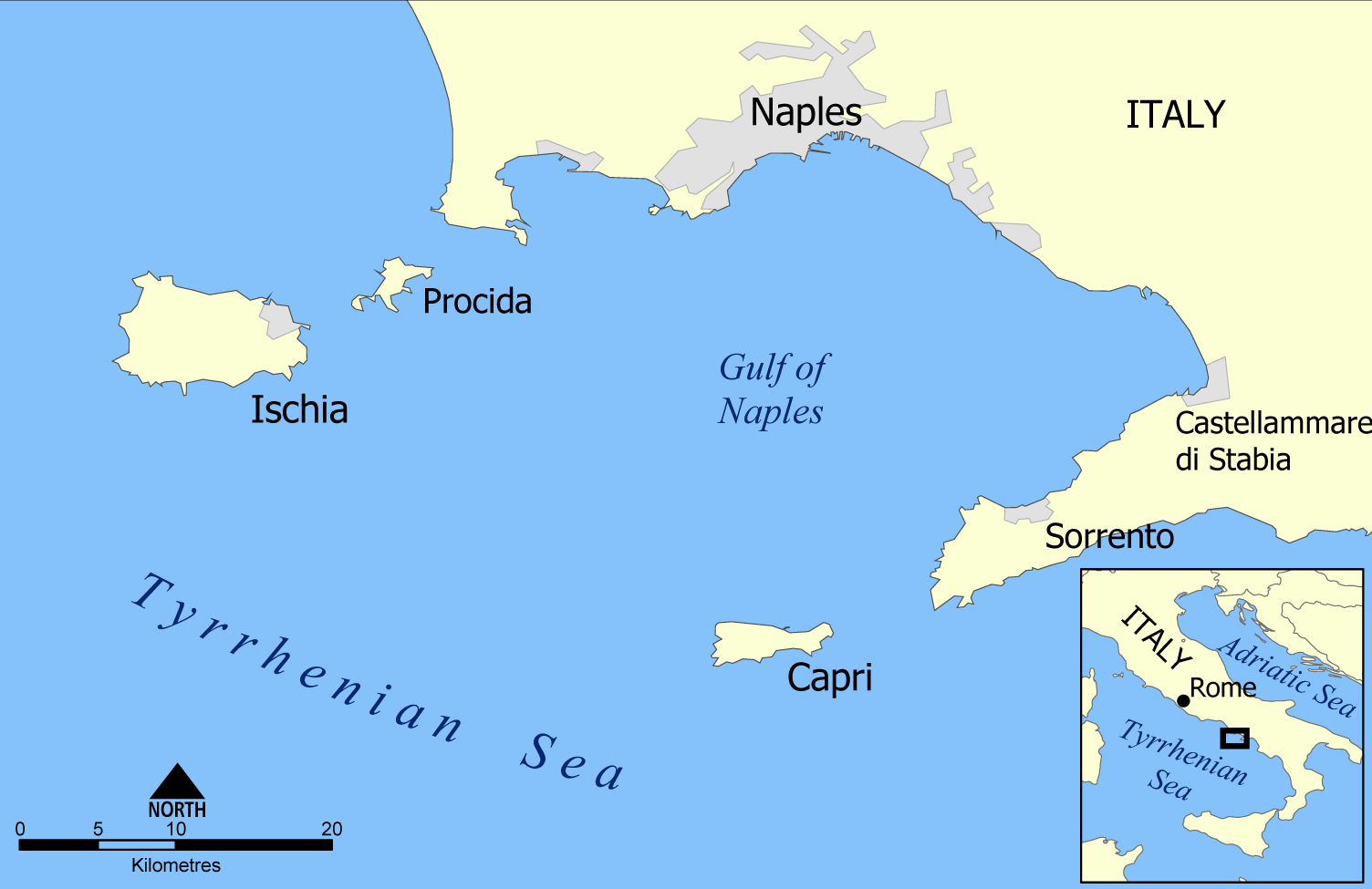 A map showing the islands of Capri and Ischia and the Bay of Naples.Created by NormanEinstein, May 17, 2005.